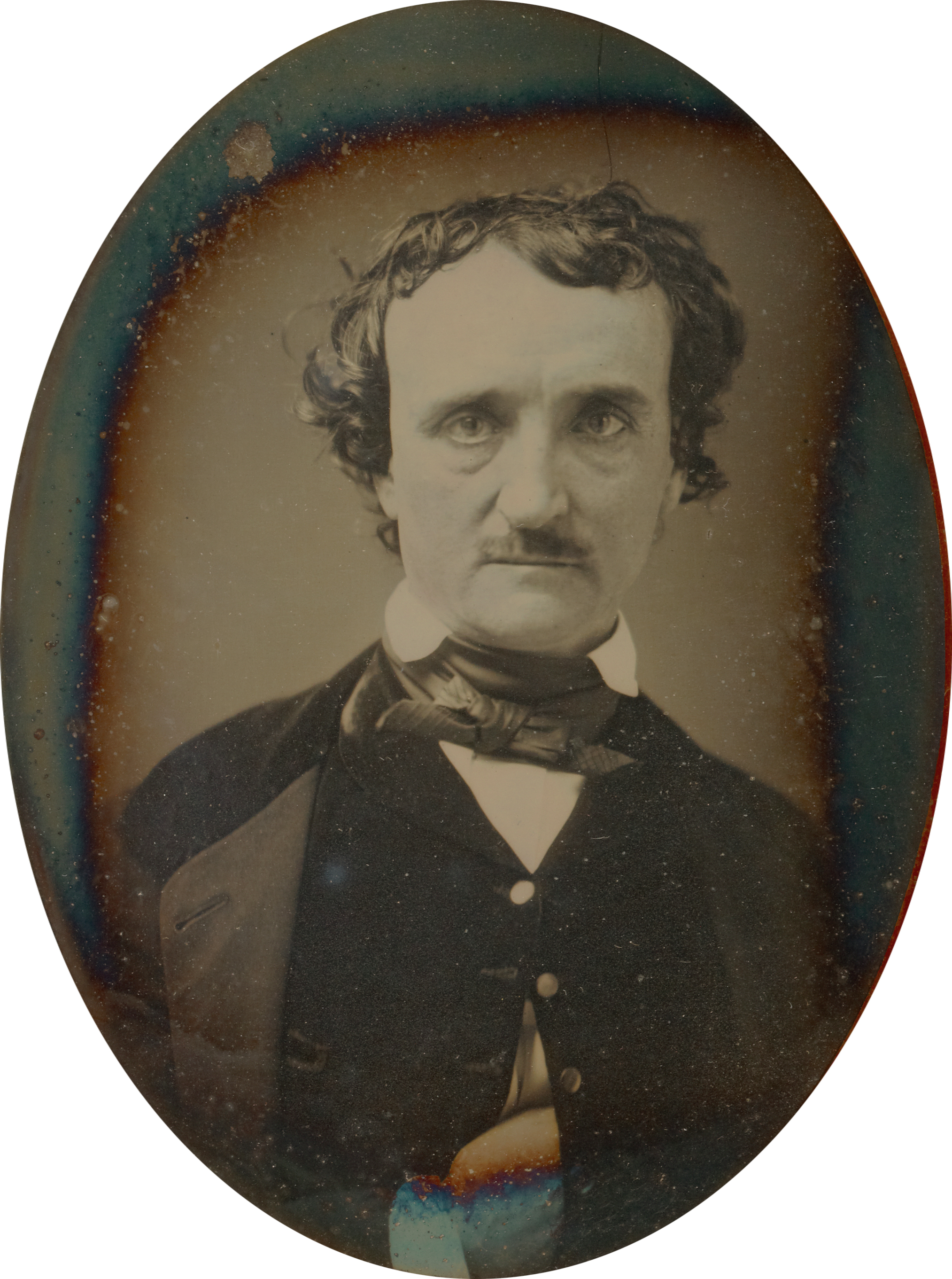 Edgar Allan Poe.